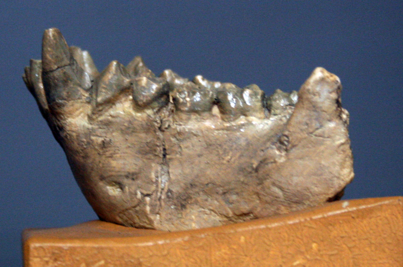 mandible fragment of Dryopithecus fontani from Saint-Gaudens, France (Middle Miocene, 11,5 My) ; cast from Museum national d'histoire naturelle, Paris